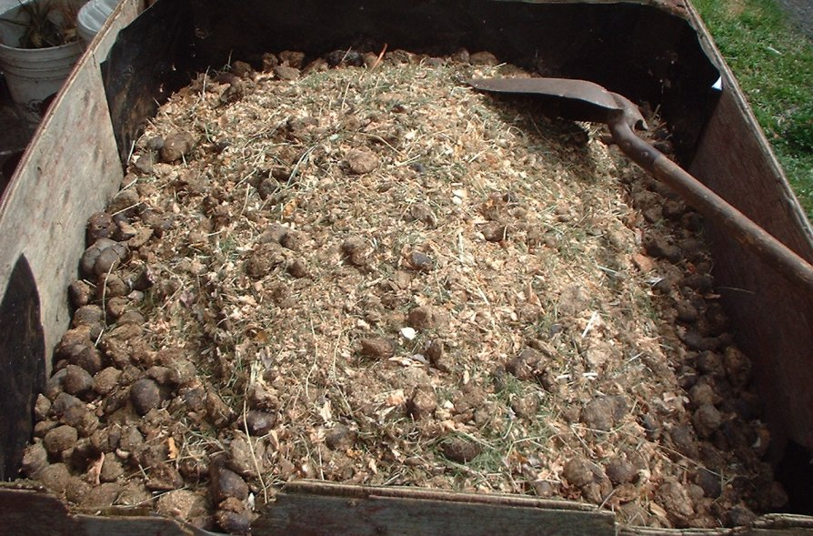 Hot compost stable bedding input